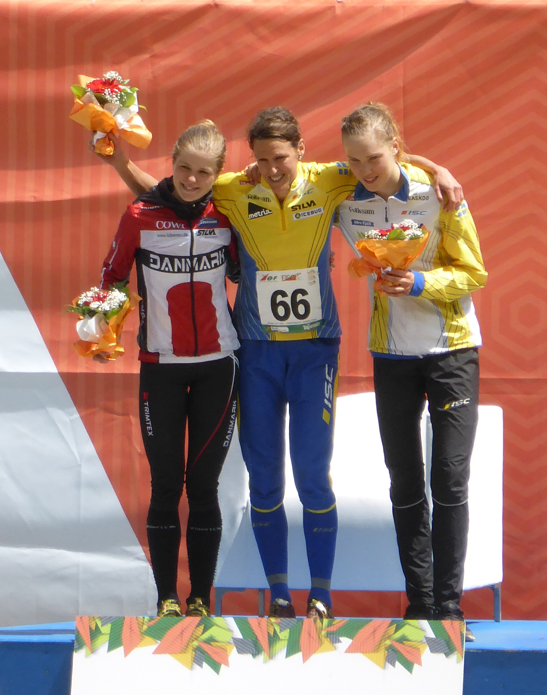 Medal winners Women´s Middle Distance World Orienteering Championships 2014 in Italy Ida Bobach,Annika Billstam,Tove Alexandersson